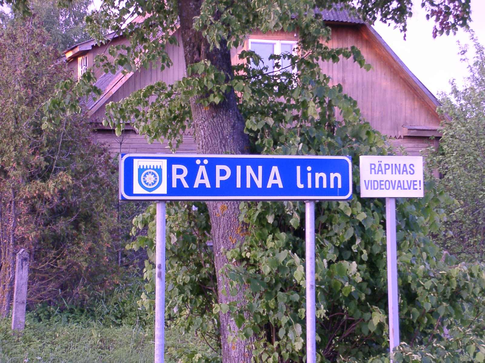 Road-Sign of Räpina, Estonia 2003